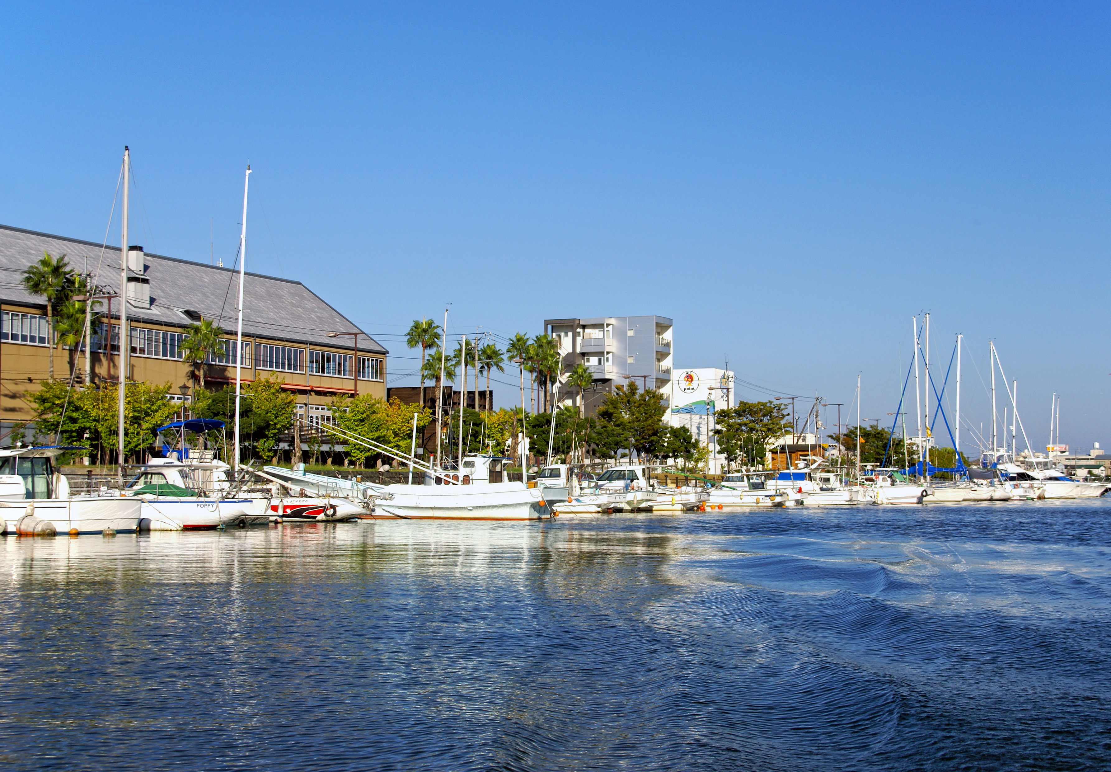 Kenchopia in Tokushima, Tokushima prefecture, Japan